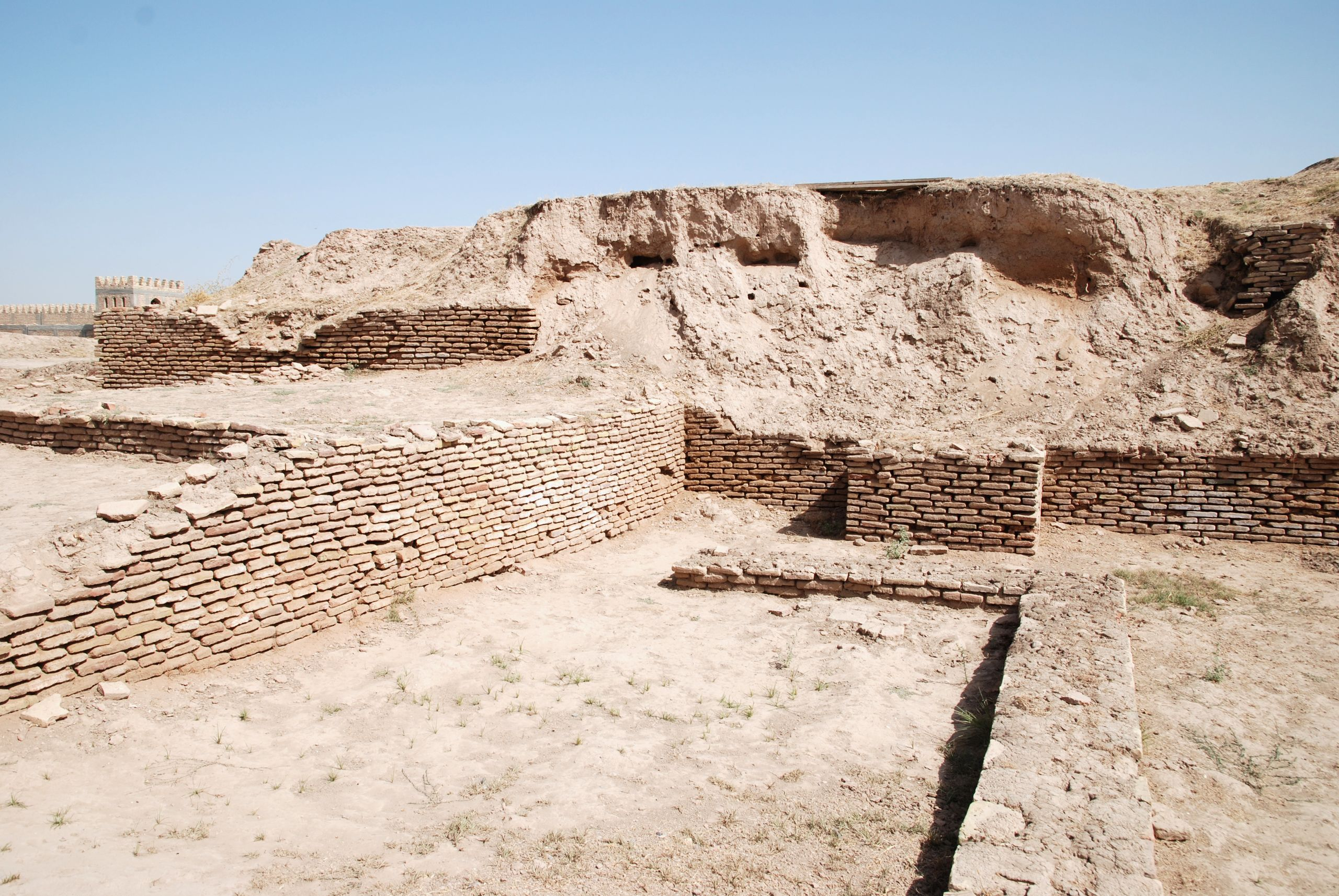 Hulbuk, Khurbon Shahid, south palace